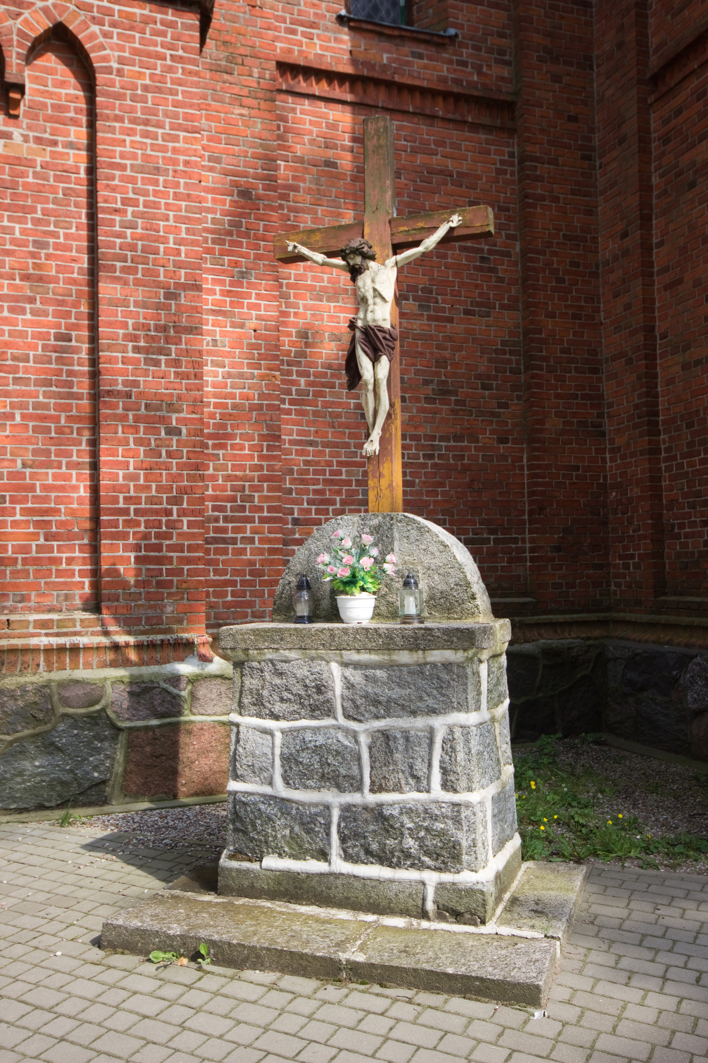 Church, Lutry, gmina Kolno, powiat olsztyński, Warmian-Masurian Voivodeship